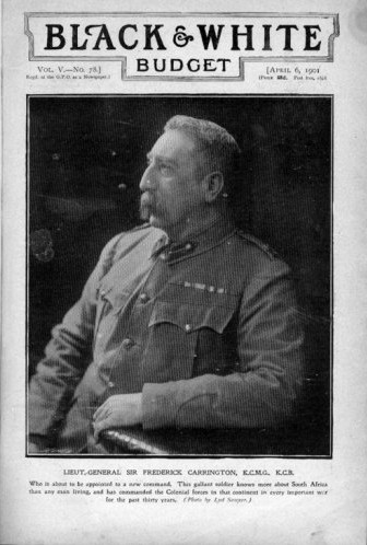 "Black & White Budget" weekly cover